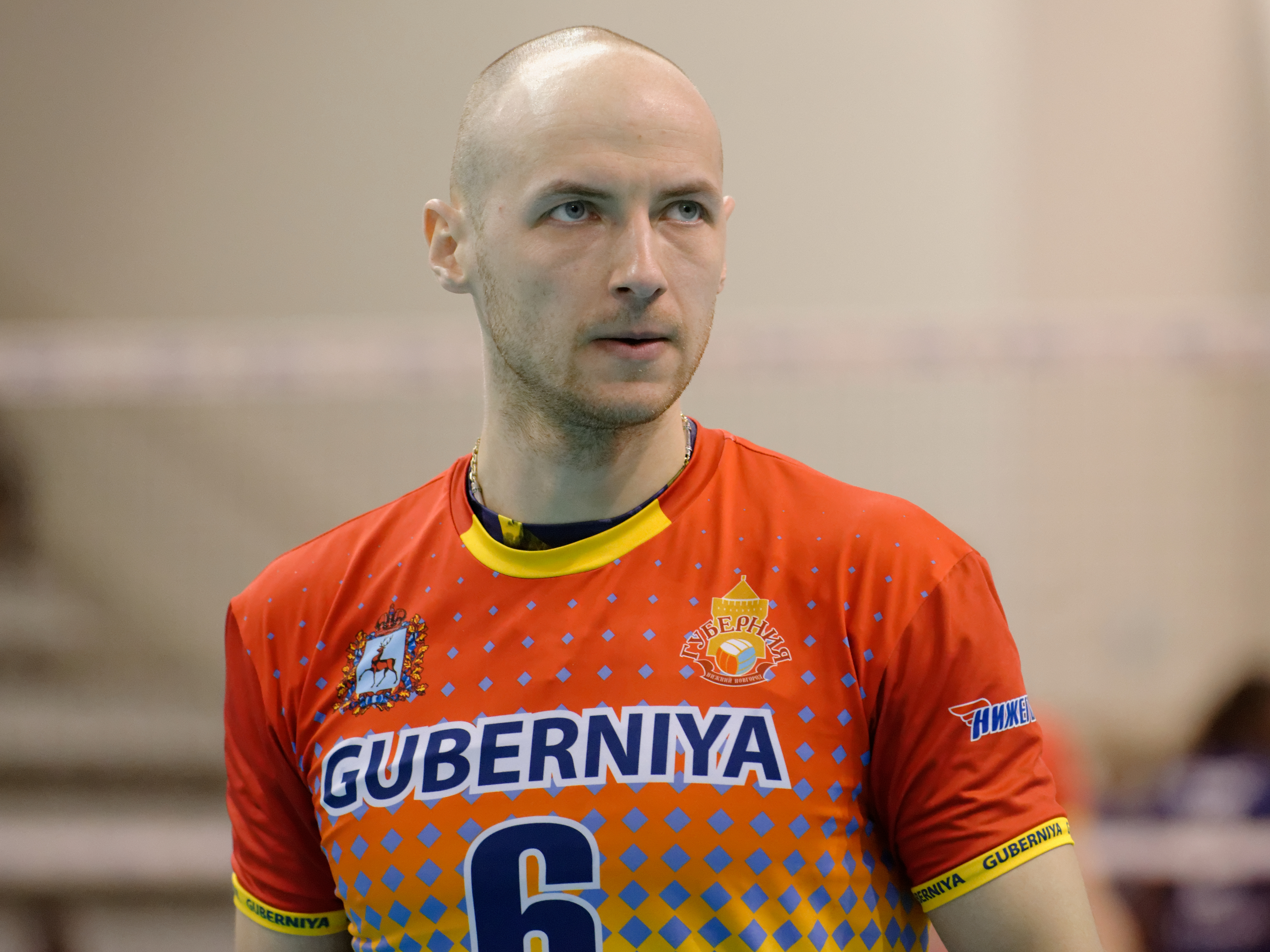 Guberniya Nizhny Novgorod's Nikolay Pavlov during the final of the 2014 CEV Cup against Paris Volley in Paris on 29 March 2014.